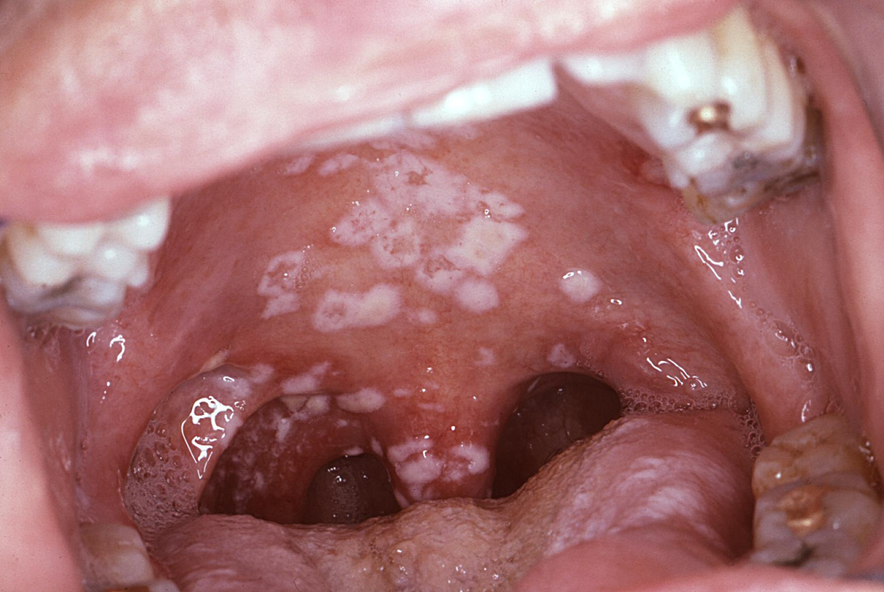 This patient presented with a secondary oral pseudomembraneous candidiasis infection. The immune system in suffers with HIV undergoes a dramatic reduction in its effectiveness, resulting in the greater possibility of secondary infections, as in this example. This infection responded to fluconazole 100 mg daily, for 1 week.